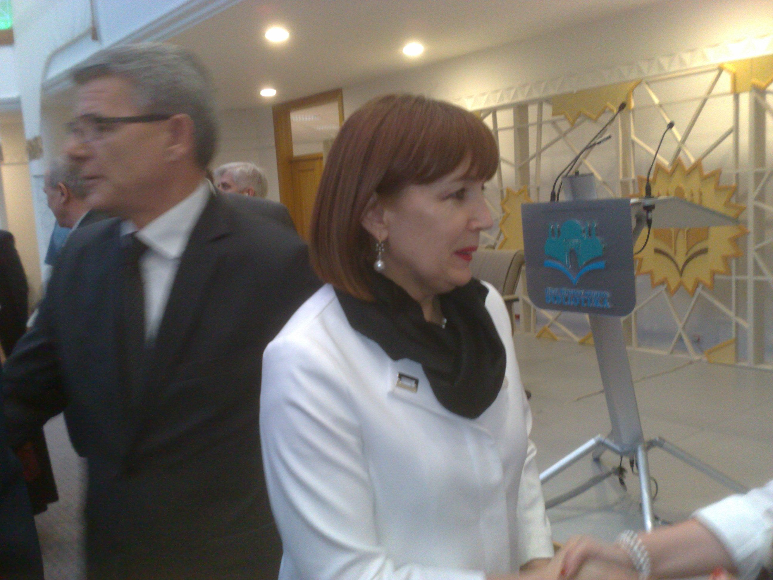 Melika Mahmutbegovic